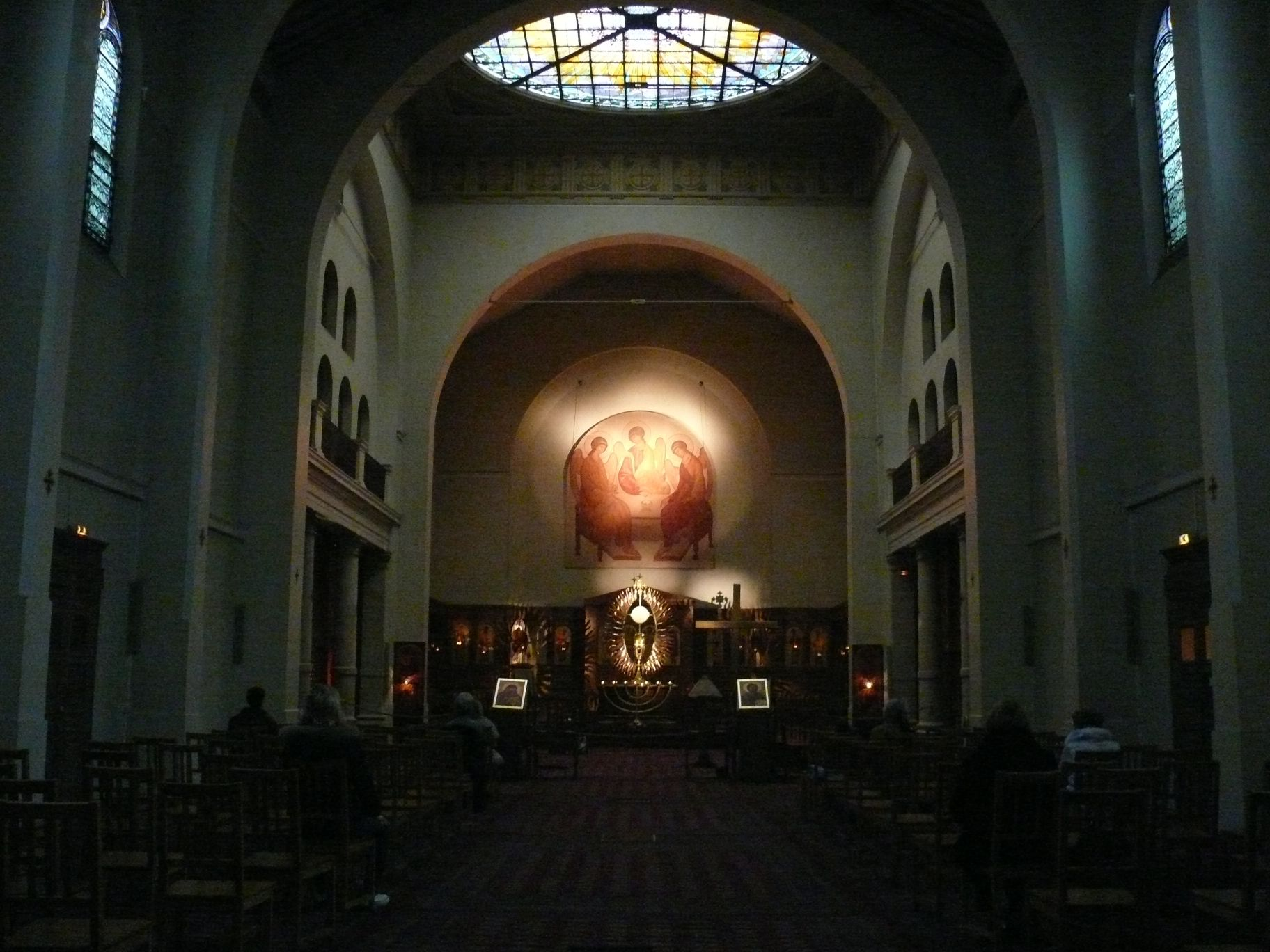 Old Saint Honoré d'Eylau's church in Paris XVIe (France).